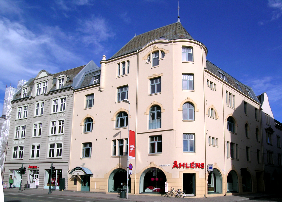 Part of Jugendkvarteret, Trondheim, Norway. In the foreground Olav Tryggvasons gate 2B (Kleingården). Built 1908. Architect: Hagbarth Schytte-Berg.